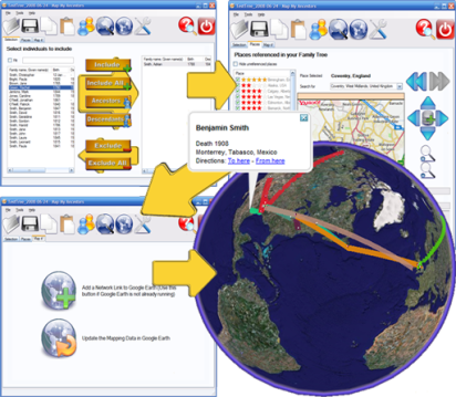 The 3 steps to producing a Family Tree Map